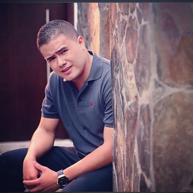 Wilson Way en Grabación del Video de la Canción Ven